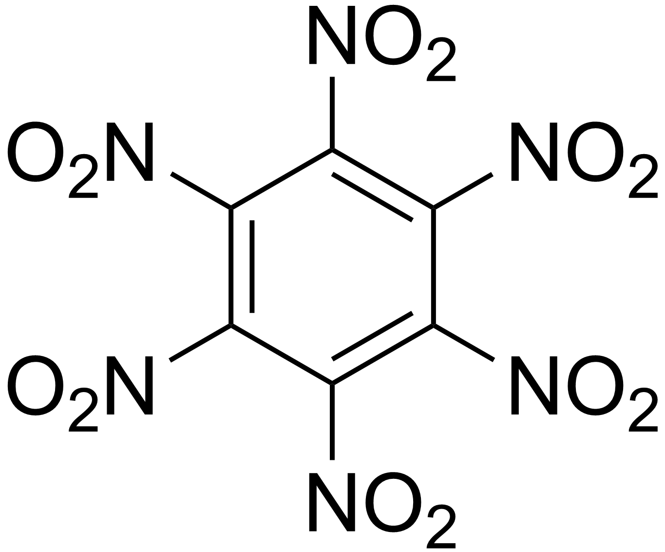 Chemical structure of hexanitrobenzene created with ChemDraw.